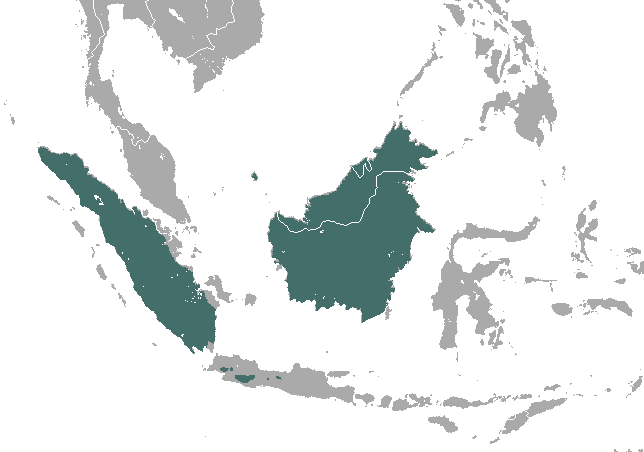 Sunda Stink Badger (Mydaus javanensis) range, with national borders added